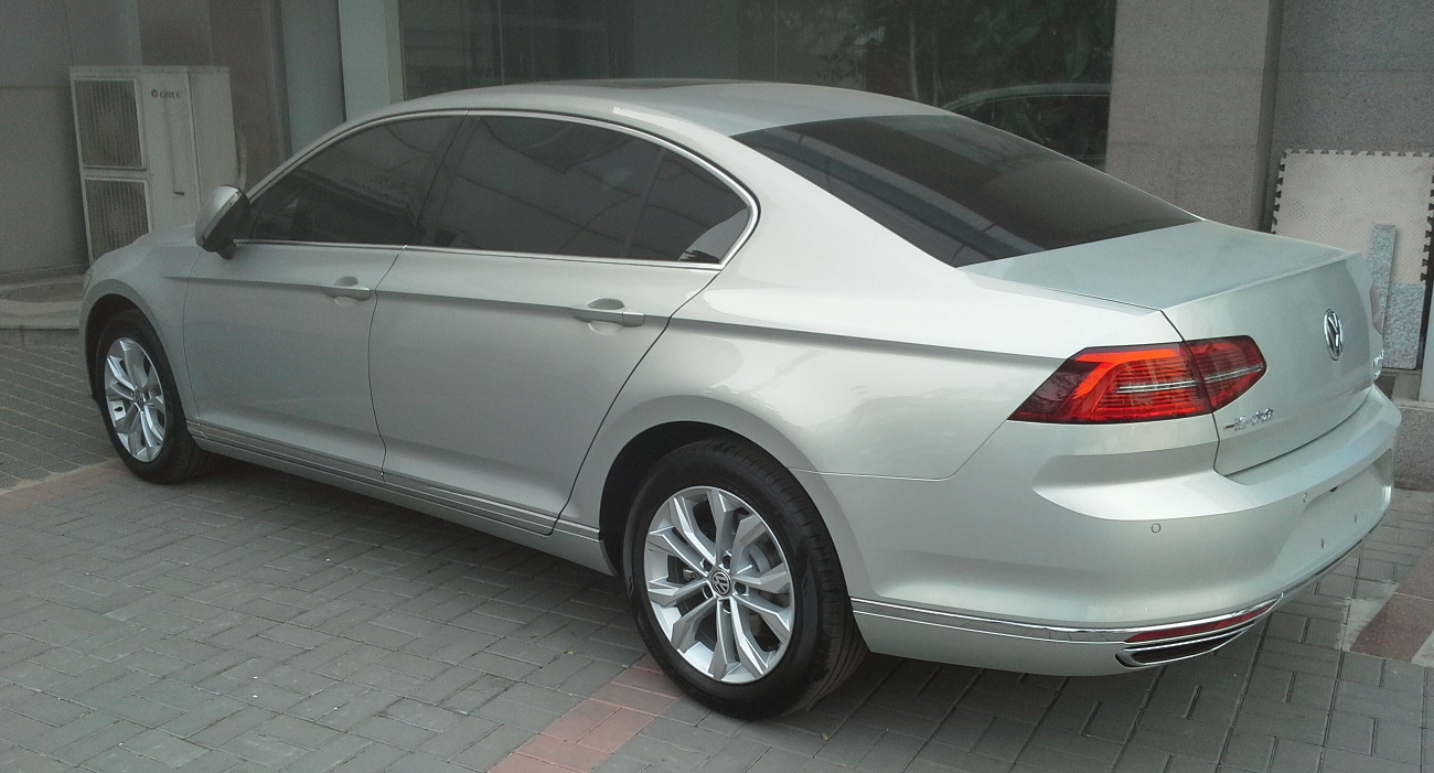 Volkswagen Magotan B8L photographed in Beijing, China.